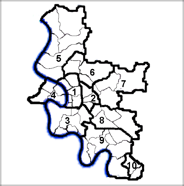 Map of districts of Düsseldorf.